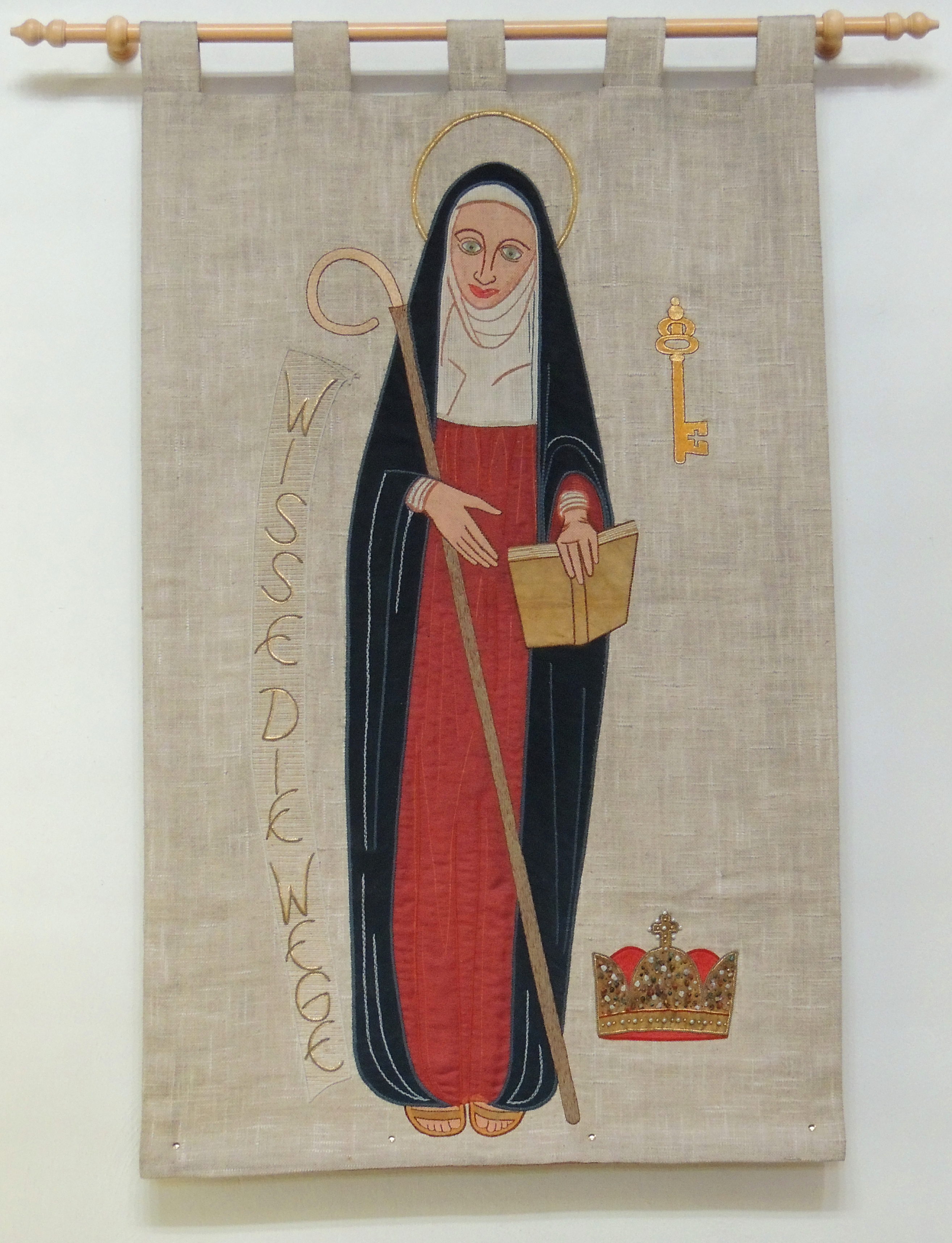 Tapestry with a picture of Hildegard von Bingen originally used in the branch St. Hildegard of the Herz-Jesu-Church in Fechenheim, now in the Heilig-Geist-Kirche in Frankfurt am Main-Riederwald